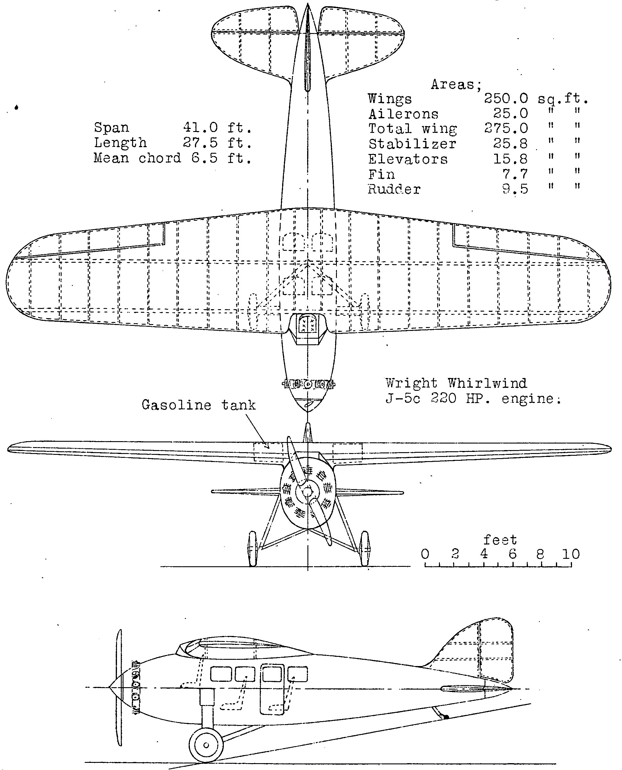 Lockheed Vega 3-view drawing from NACA Aircraft Circular No.61